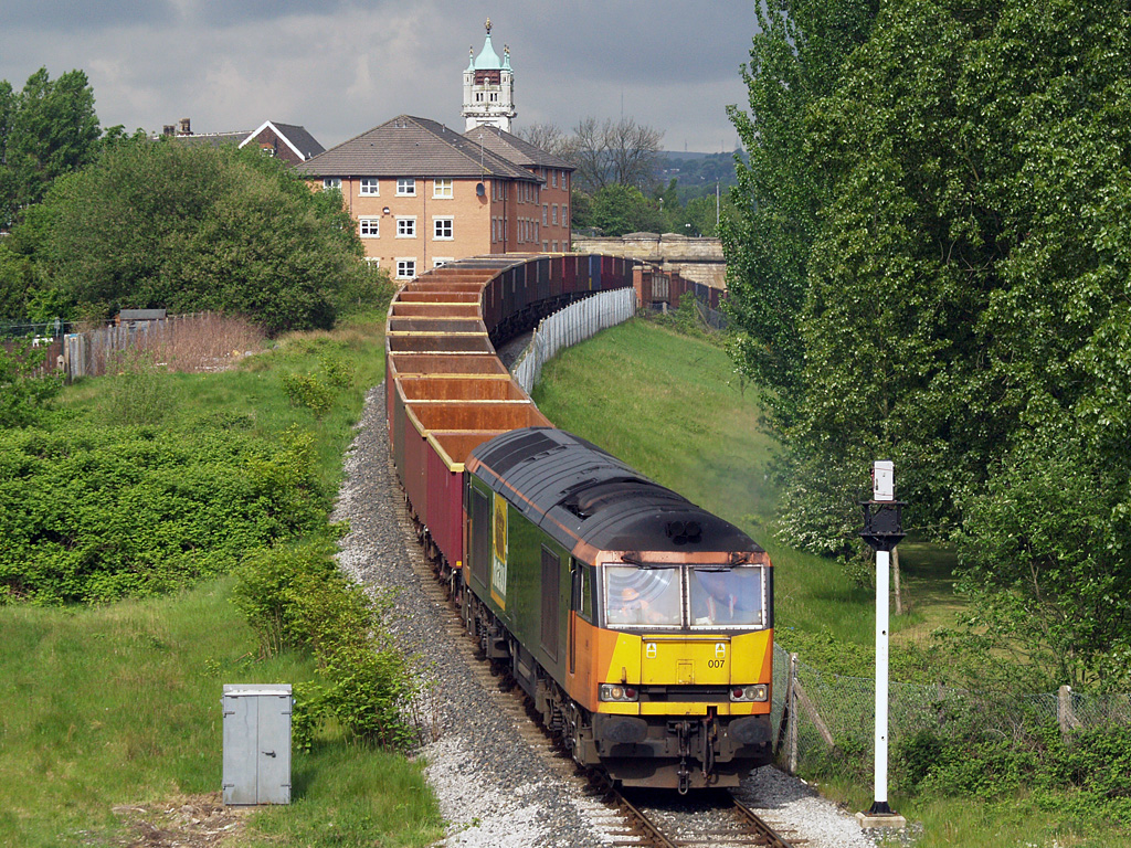 English Welsh and Scottish Railway Limited former British Railways Brush Type 5 Co-Co class 60 diesel-electric locomotive number 60007 of Toton TMD passes (the to be commissioned) Bury South signal box 35 signal (section signal for Up trains on the Up & Down Broadfield line) on the East Lancashire Railway with the 10:15 (MSX) Bury East Lancashire Railway to Arpley Sidings (6P25). Wednesday 9th May 2007